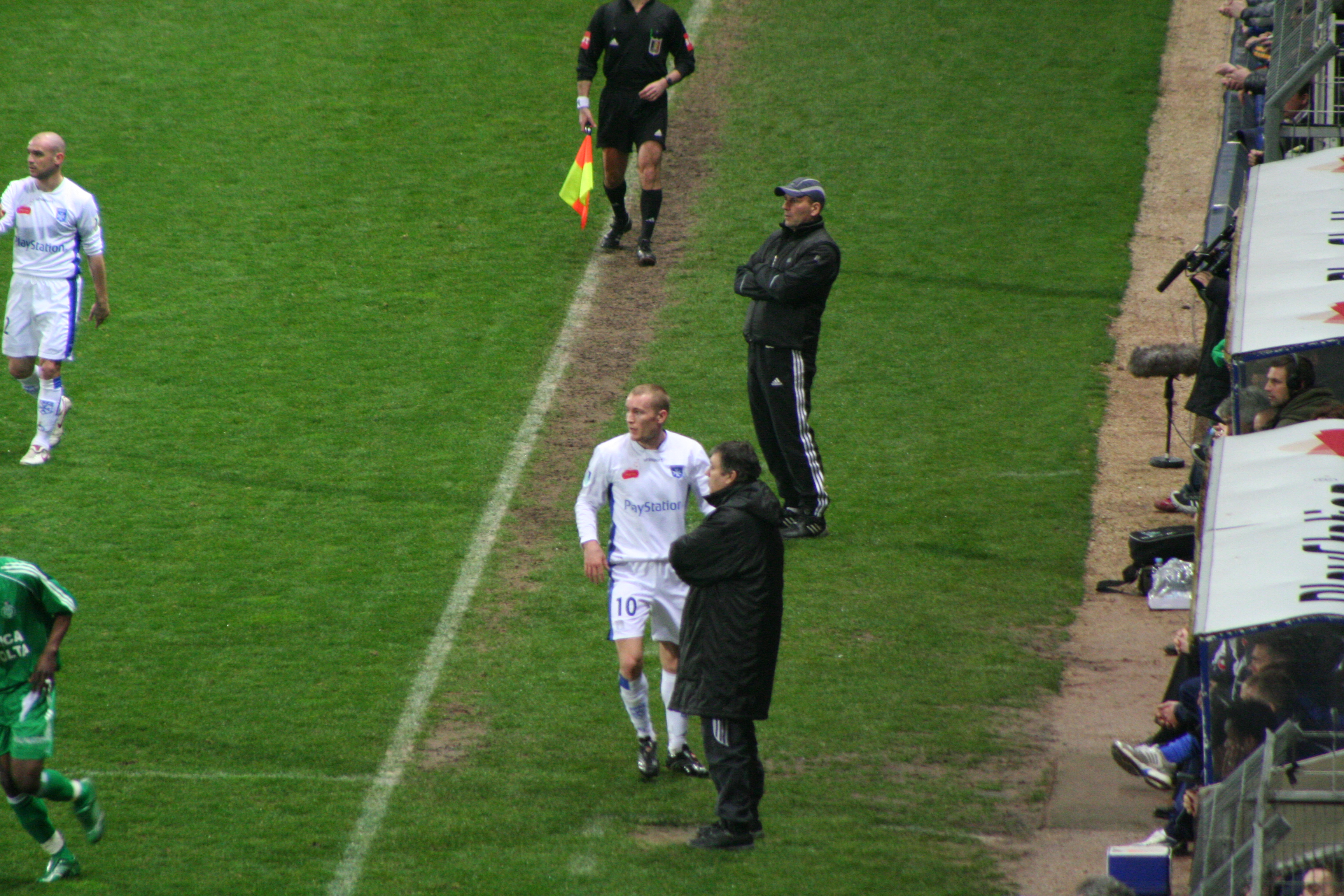 Jacques Santini (AJ Auxerre coach) with Thomas Kahlenberg (n°10) - Elie Baup (background, Saint-Etienne coach).